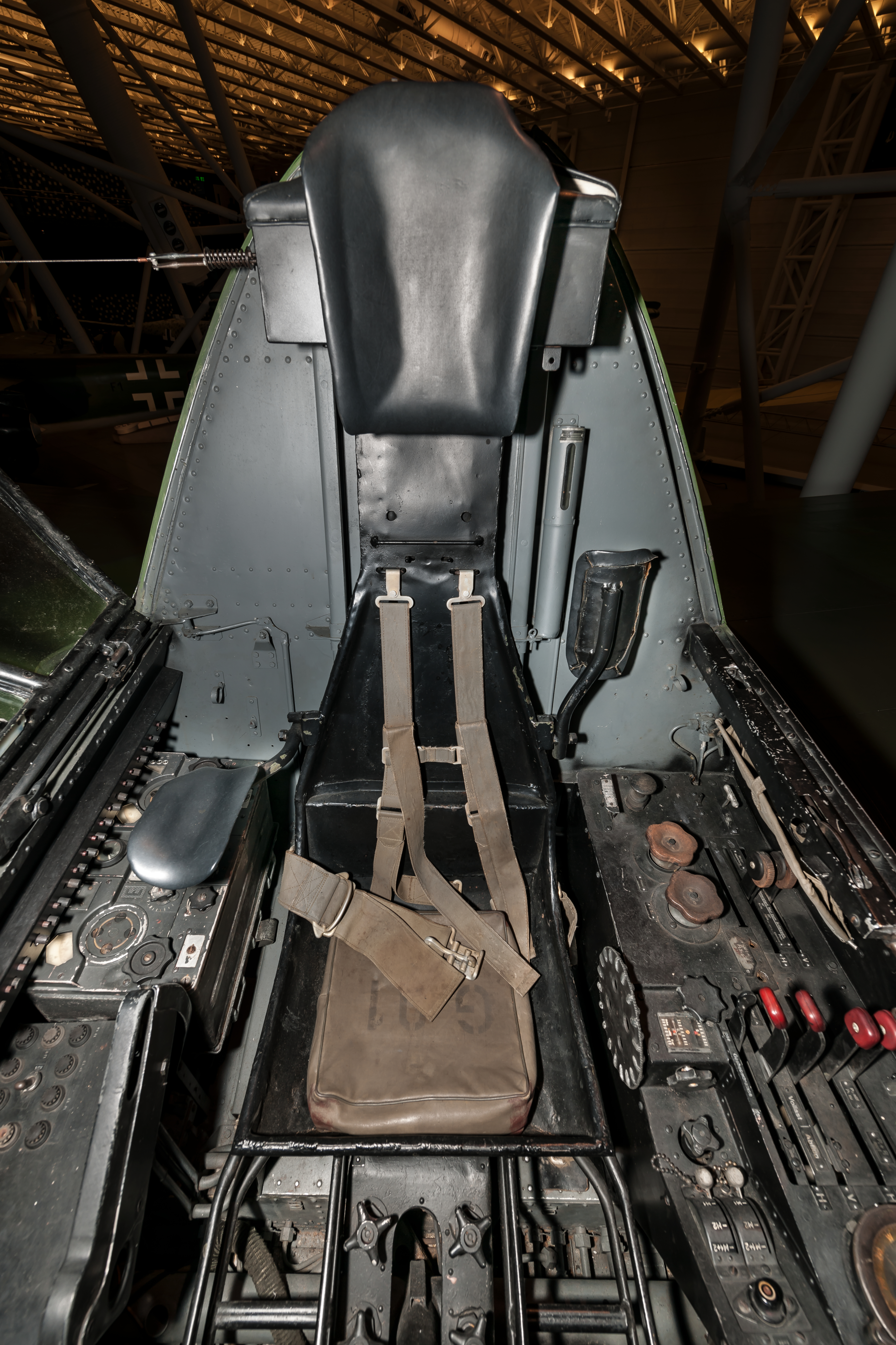 DornierCockpit. Photos by Dane A. Penland, Smithsonian National Air and Space Museum.[DornierCockpit6-17-2014_0041] [NASM2019-00565]